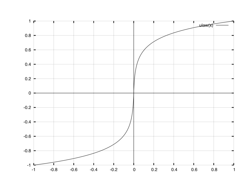 A graph in [-1, 1] of the mu-law function. Made with gnuplot and renderized to 792 x 612 pixels (72 dpi).